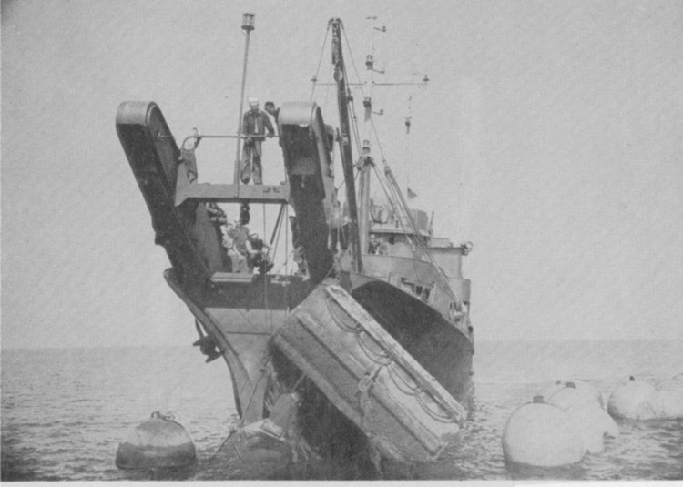 Close up of Net Tender USS Sandalwood (AN-32)